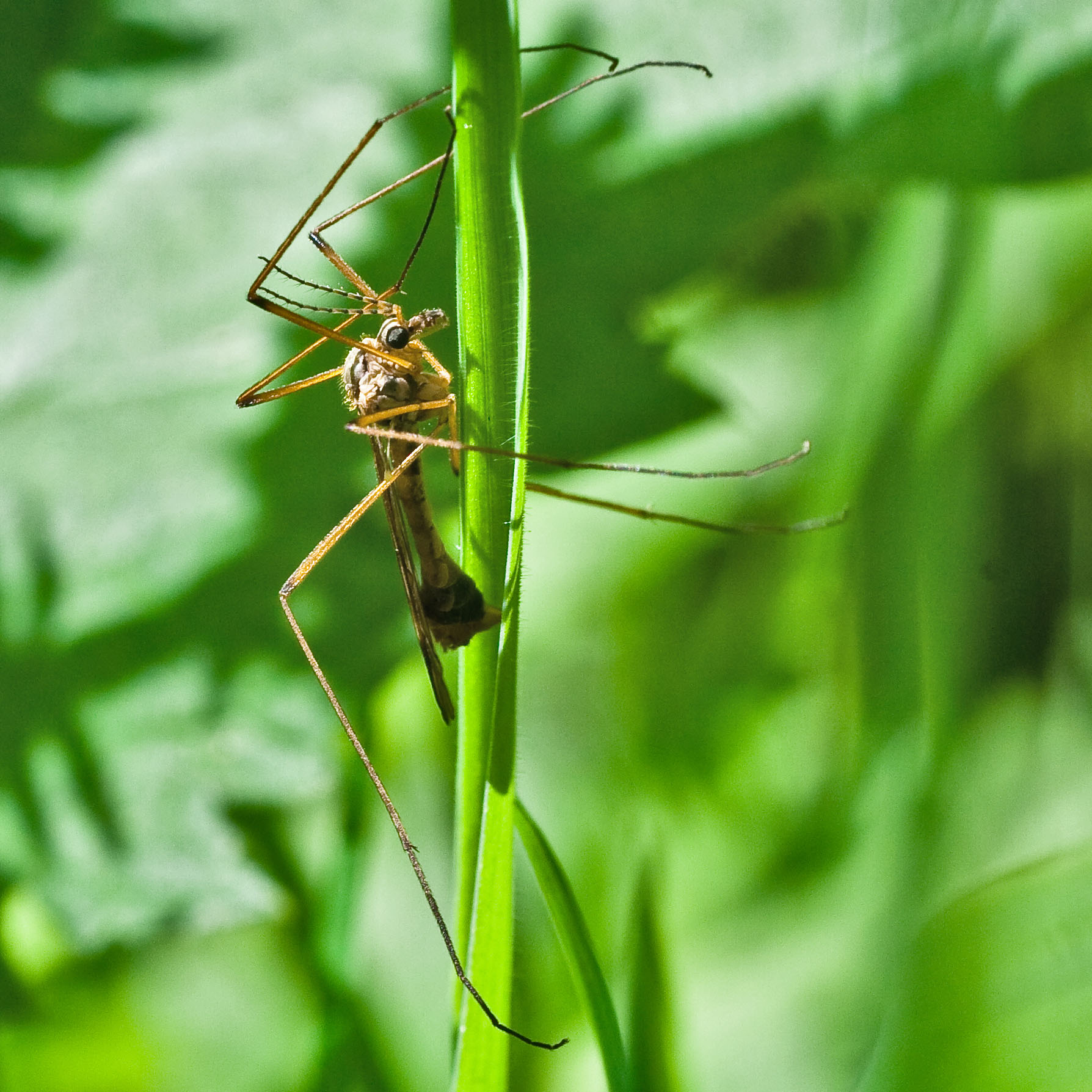 Tipula maxima I think. At Otterhead.